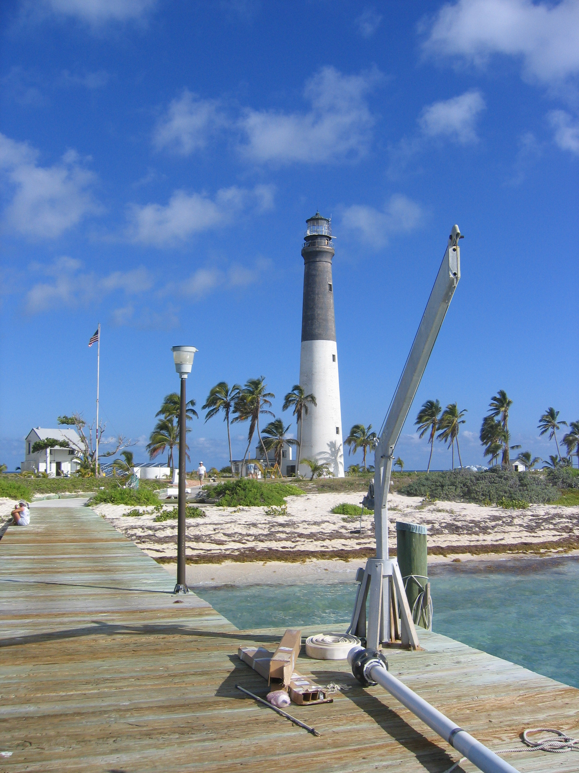 Loggerhead Key Lighthouse. Dry Tortugas, Loggerhead Key, Florida.